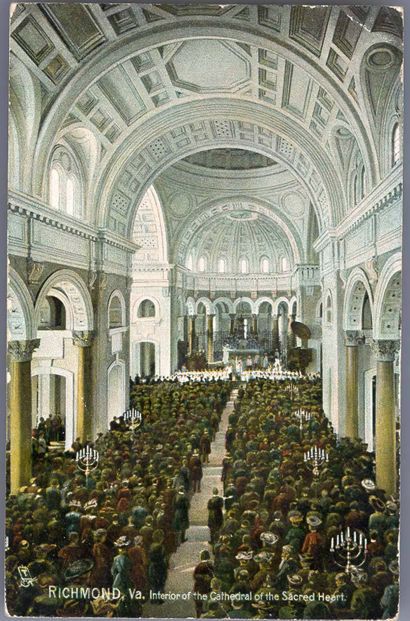 Description: The Cathedral of the Sacred Heart, the grandest institution of its kind in the south, is the gift of Mr. and Mrs. Thomas F. Ryan. The corner-stone was laid on June 4th, 1903, and on Nov. 29th, 1906, the church was dedicated, the ceremonies being attended by many distinguished Catholic prelates and state and city officials. The interior is magnificent, - the nave is more than 200 feet long, and there are five altars and two chapels. Manufacturer: Tuck & Sons' Date Postmarked: Not postmarked. Rights: This item is in the public domain. Acknowledgement of the Virginia Commonwealth University Libraries as a source is requested. Reference URL: Collection: Rarely Seen Richmond: Early twentieth century Richmond as seen through vintage postcards